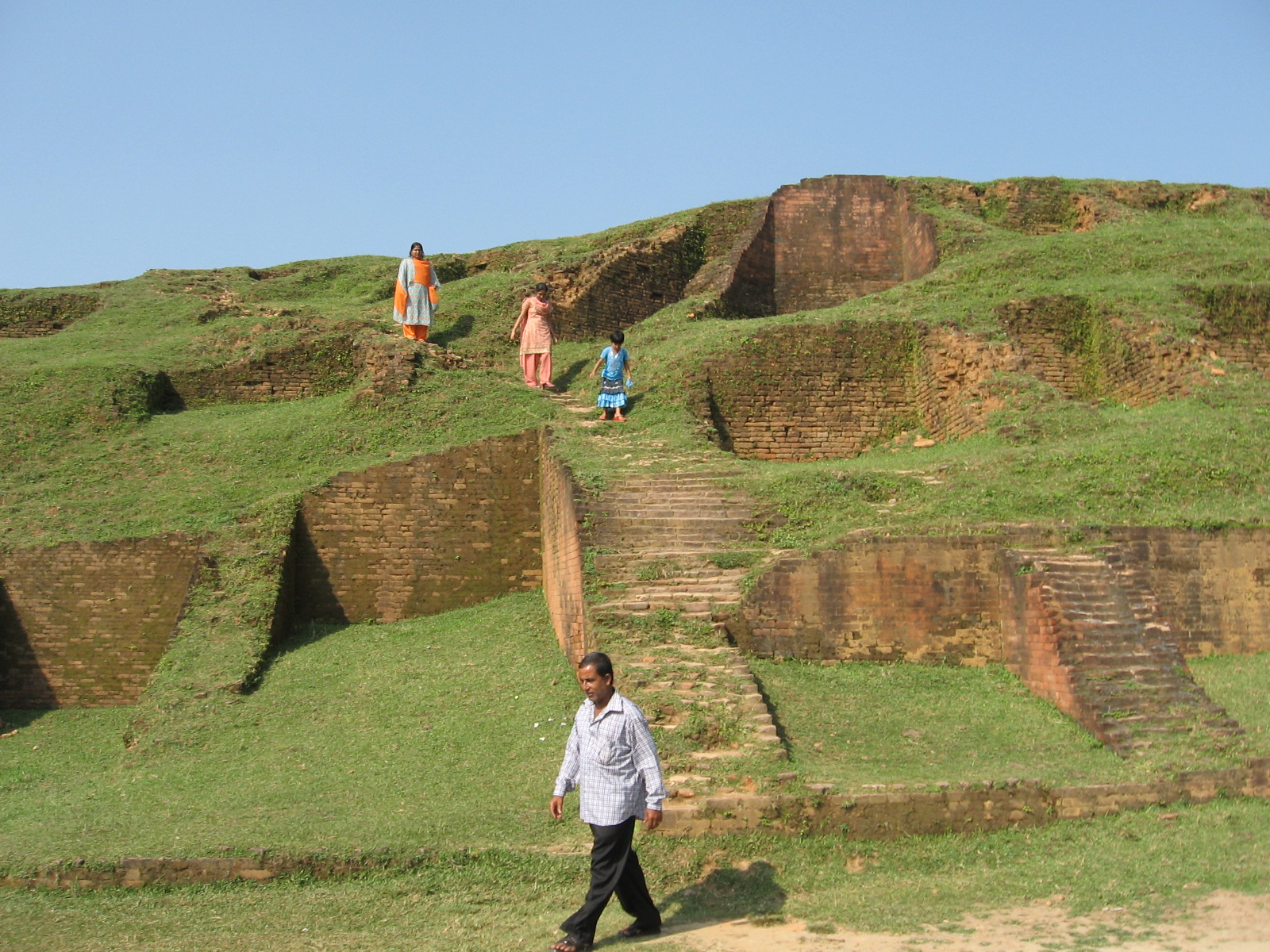 Gokul Medh - an excavated mound in the village of Gokul (Bangladesh) under Bogra Sadar Upazila. It is popularly known as Laksindarer Medh or Behula-Laksindarer Basar-ghar, or the nuptial room of the traditional heroine and hero of a popular ballad, Behula and Laksindar. It is also associated with the angry snake godess Manasa.